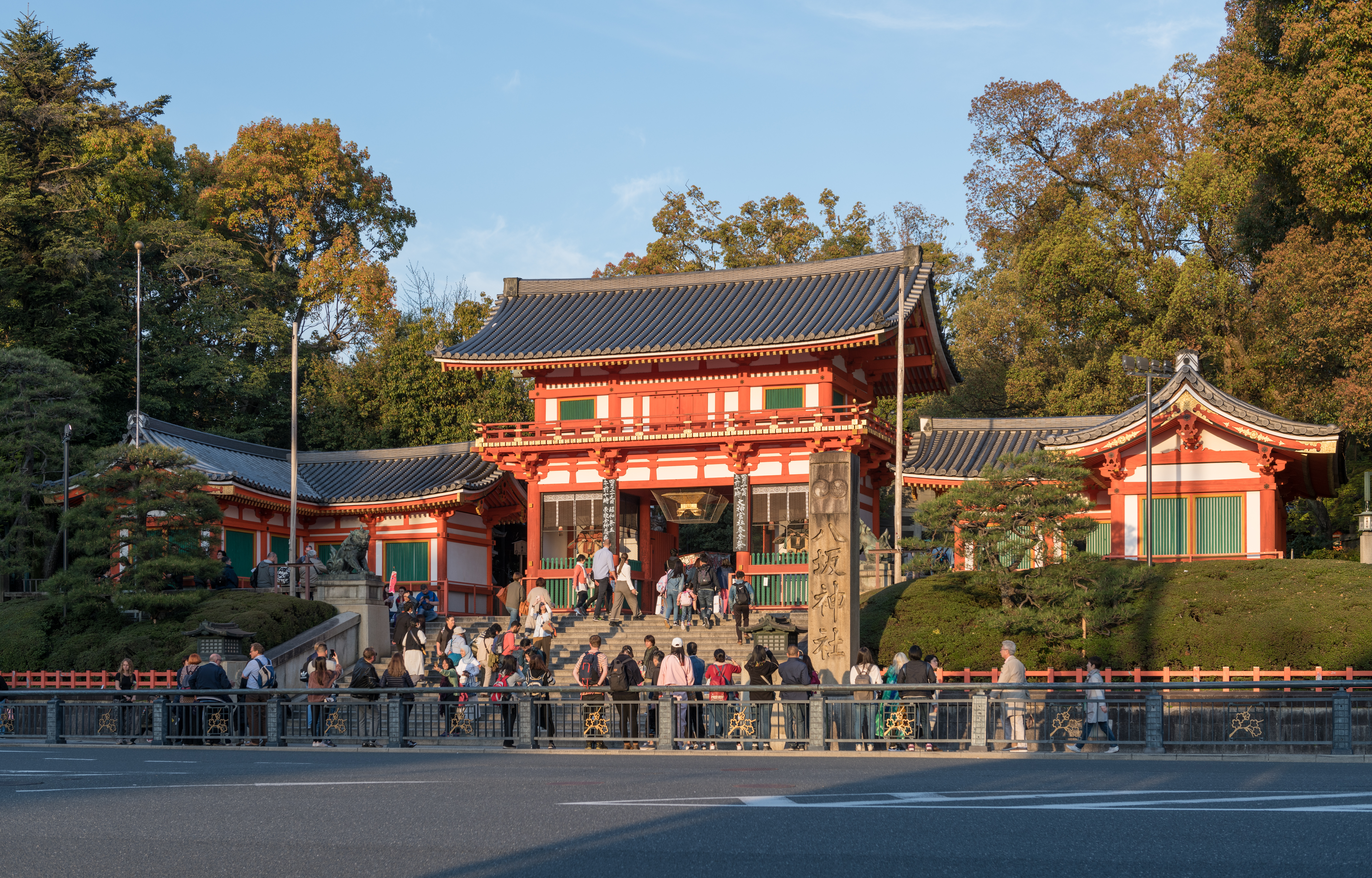 A west view of the Nishiromon Gate to the Yasaka Shrine, Kyoto